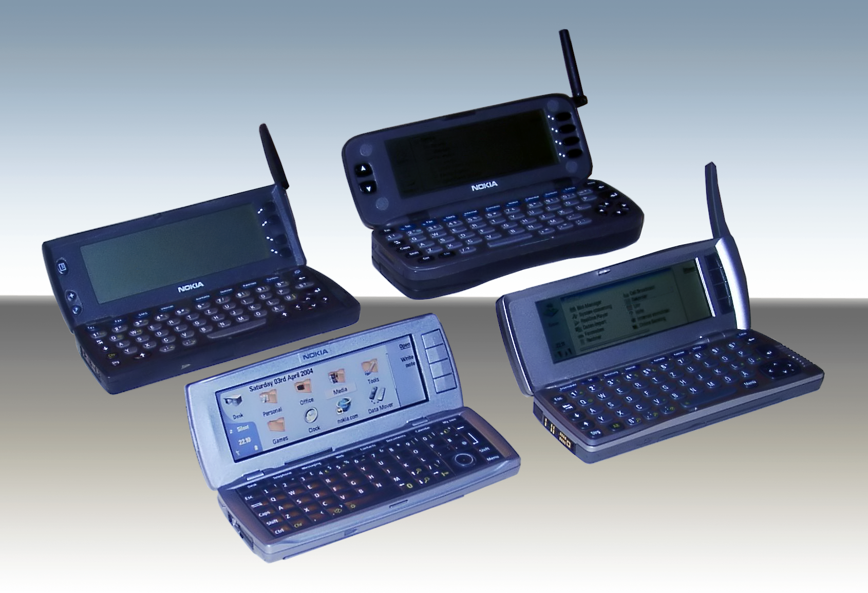 Nokia Communicators from the 9000 series, from back right to left: 9000, 9110, 9210 and 9500.